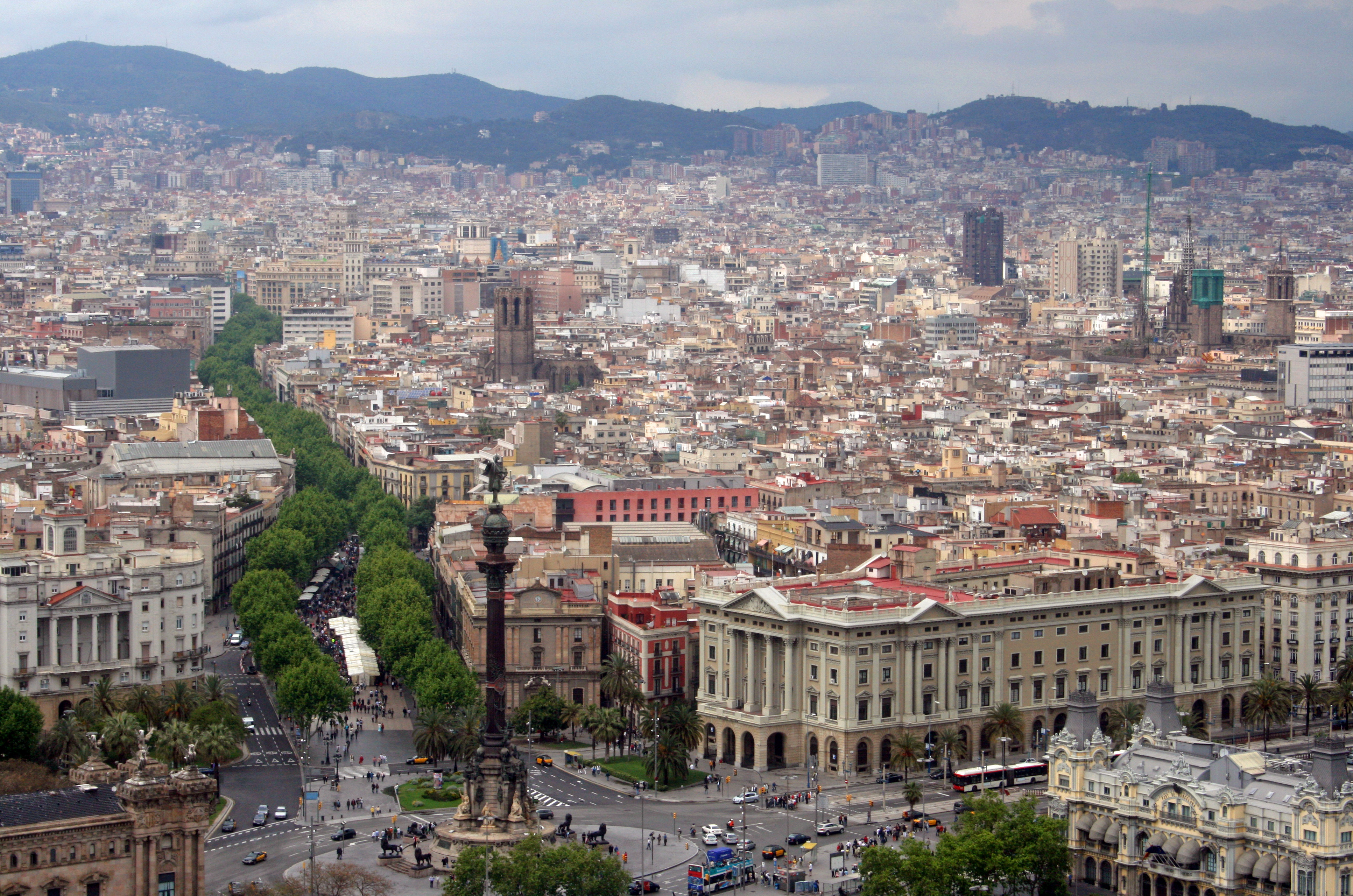 Barcelona overview (Ramblas)